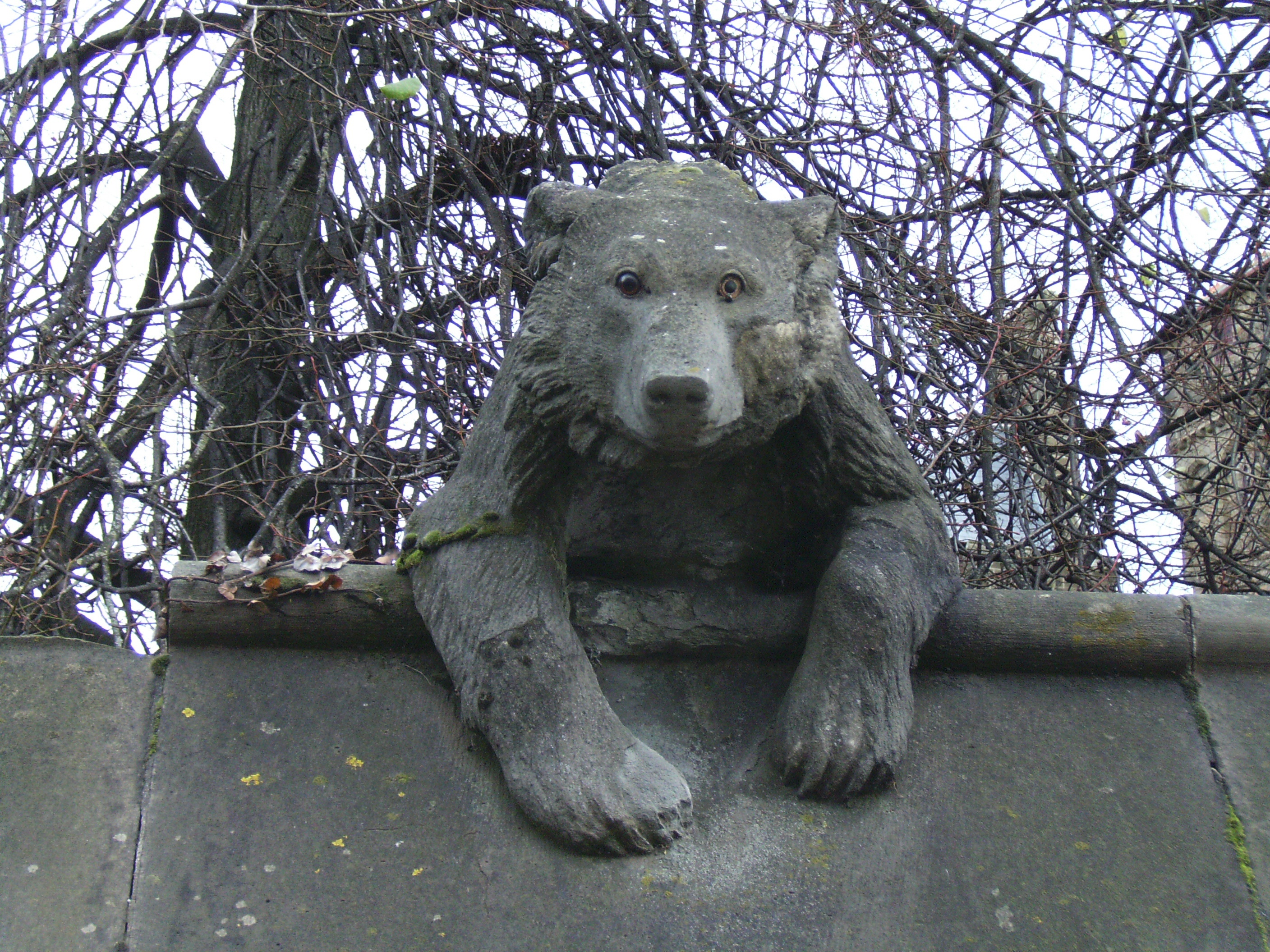 Animal Wall, Cardiff, Wales, UK